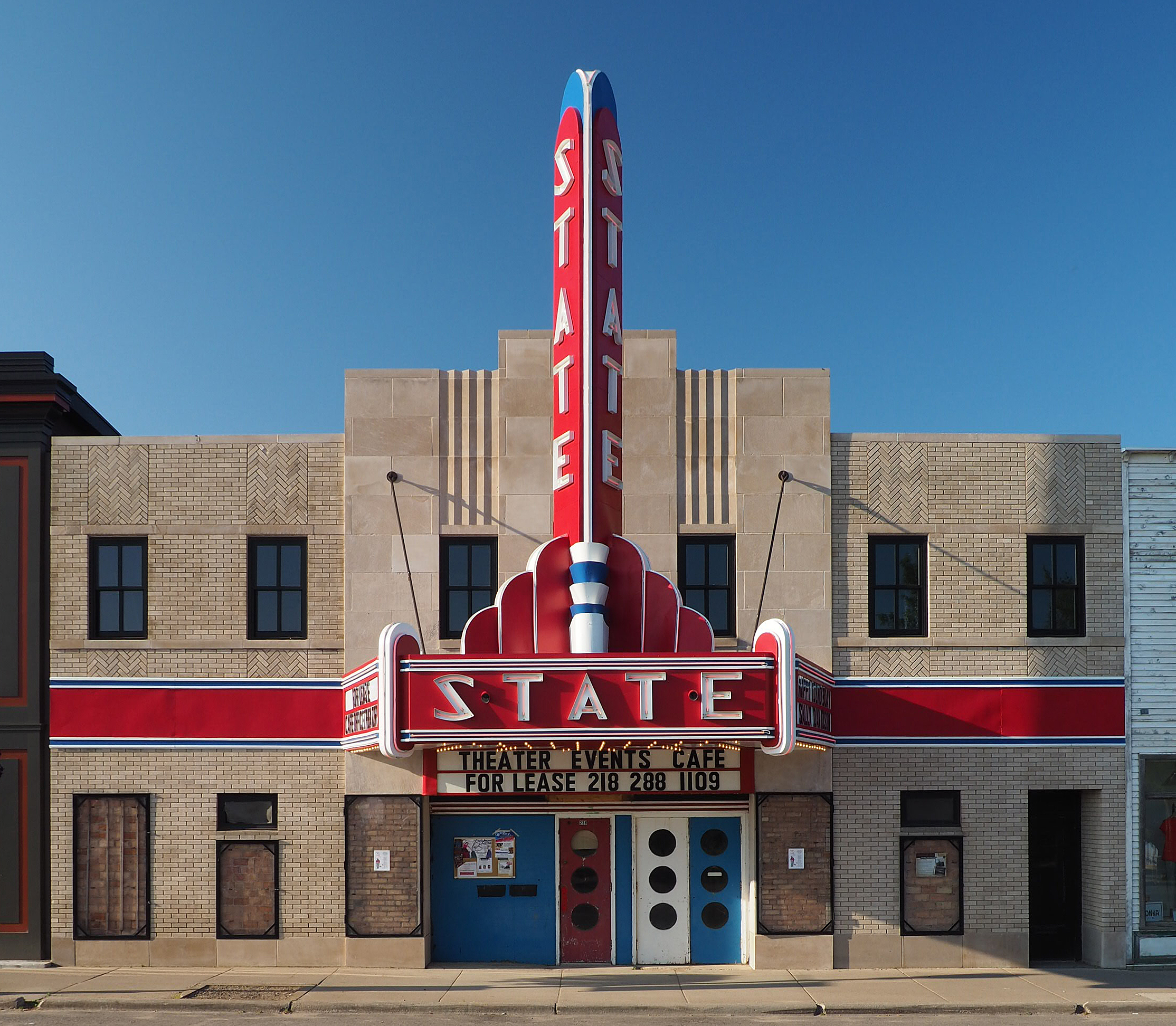 Ely State Theater, 234 E Sheridan St, Ely, Minnesota, USA. Viewed from the north.